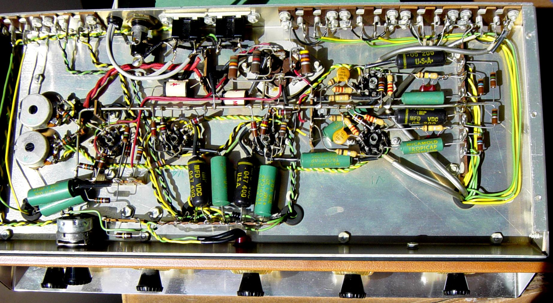 The wiring of a Heathkit Model AA141 stereo preamplifier. The assembly of this kit was completed on 20 February 1972. It was used almost daily for fifteen years, and was fully satisfactory. In the mid-1990s it was operated for several hundred hours. When this photograph was taken on 31 October 2006, this pre-amp was still in good working order.